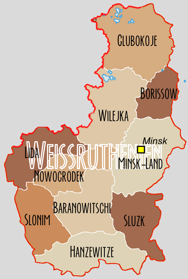 Administrative Map of Weisruthenien